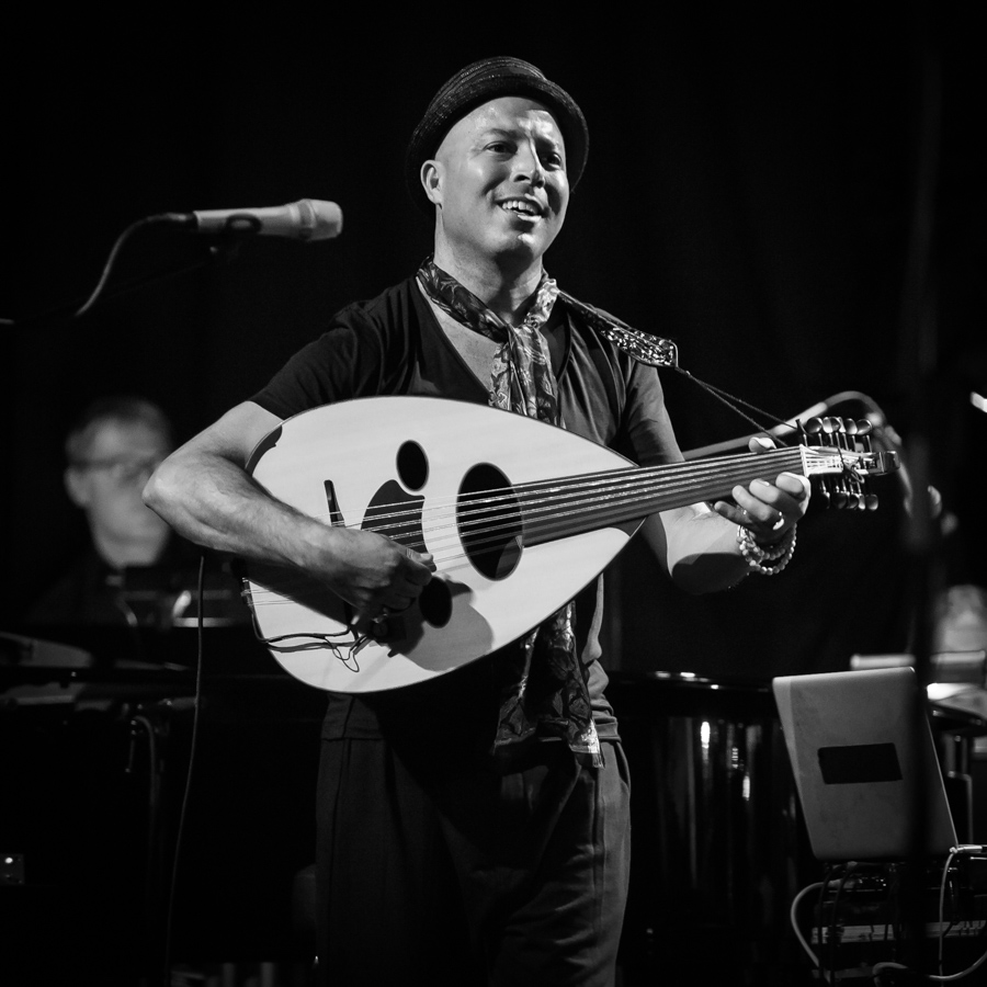 Dhafer Youssef performes at Cosmopolite during Oslo Jazzfestival 2015.